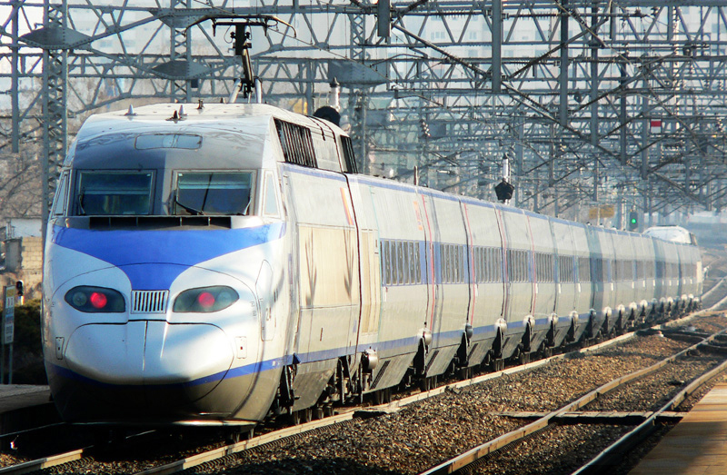 KTX(Korea Train eXpress)